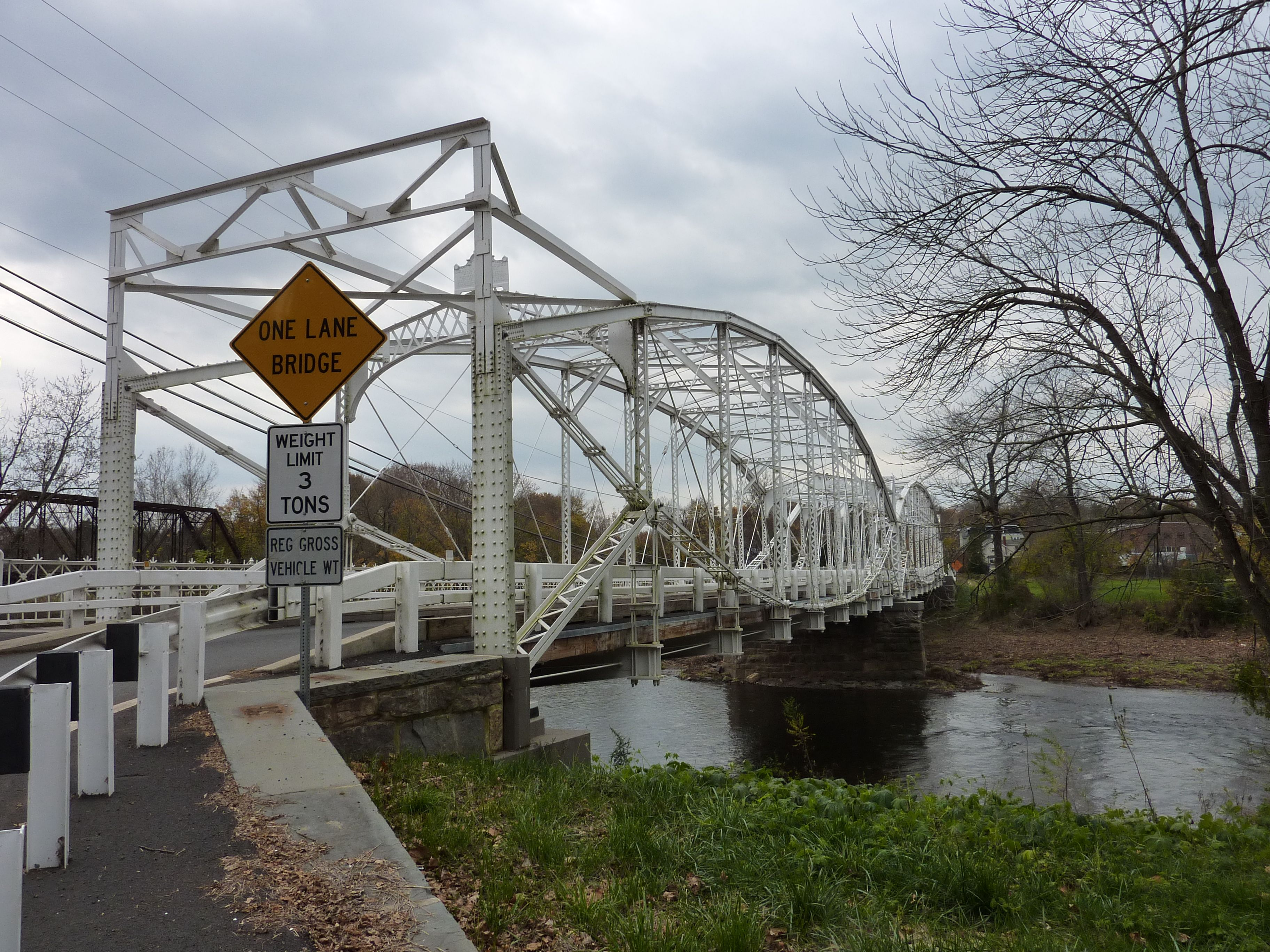 Approach to lenticular truss bridge at Neshanic Station, New Jersey.